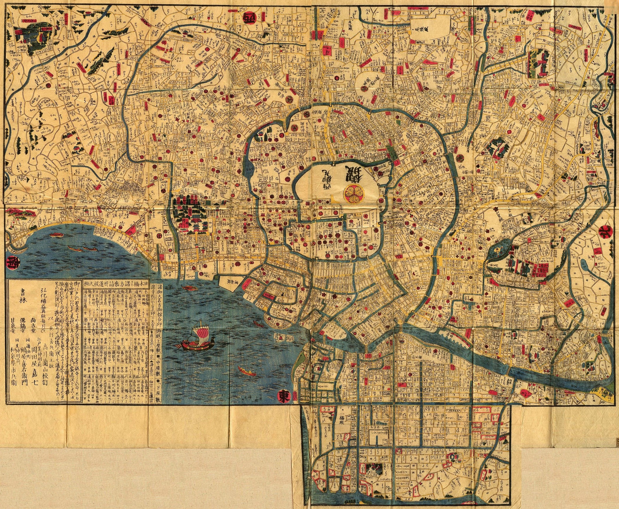 Nap of Edo (Tokyo) 1847